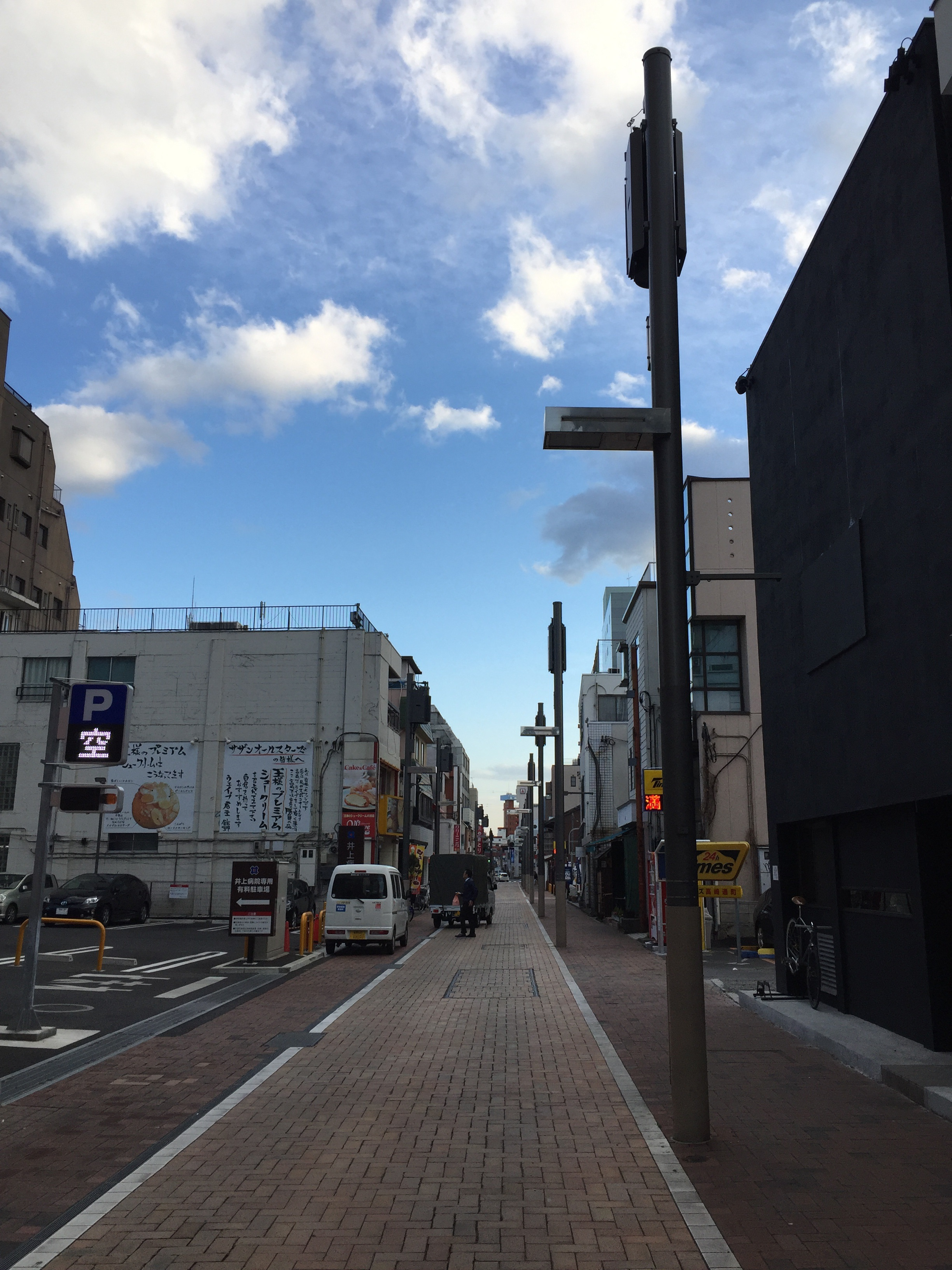 Undergrounding of electrical wires